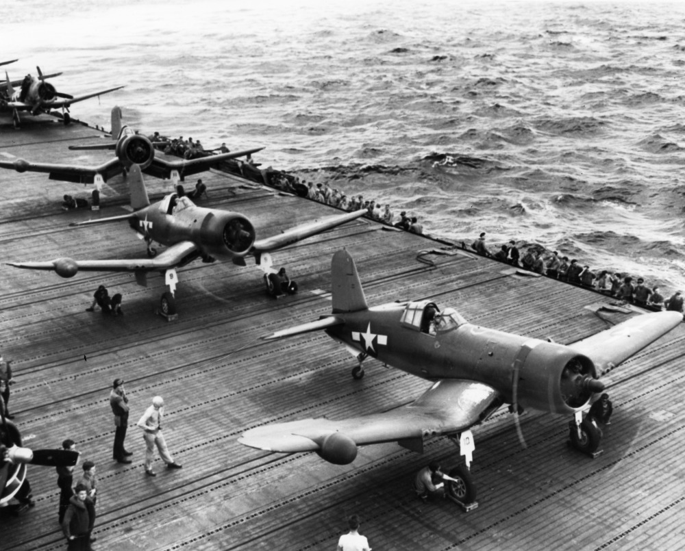 PictionID:41545181 - Title:Ray Wagner Collection Image - Catalog:16_000409 Vought F4U-2 VMF-532 CVE-92 12Jul45 USN 80-G-468919 - Filename:16_000409 Vought F4U-2 VMF-532 CVE-92 12Jul45 USN 80-G-468919.tif - - - - Image from the Ray Wagner Collection. Ray Wagner was Archivist at the San Diego Air and Space Museum for several years and is an author of several books on aviation --- ---Please Tag these images so that the information can be permanently stored with the digital file.---Repository: San Diego Air and Space Museum